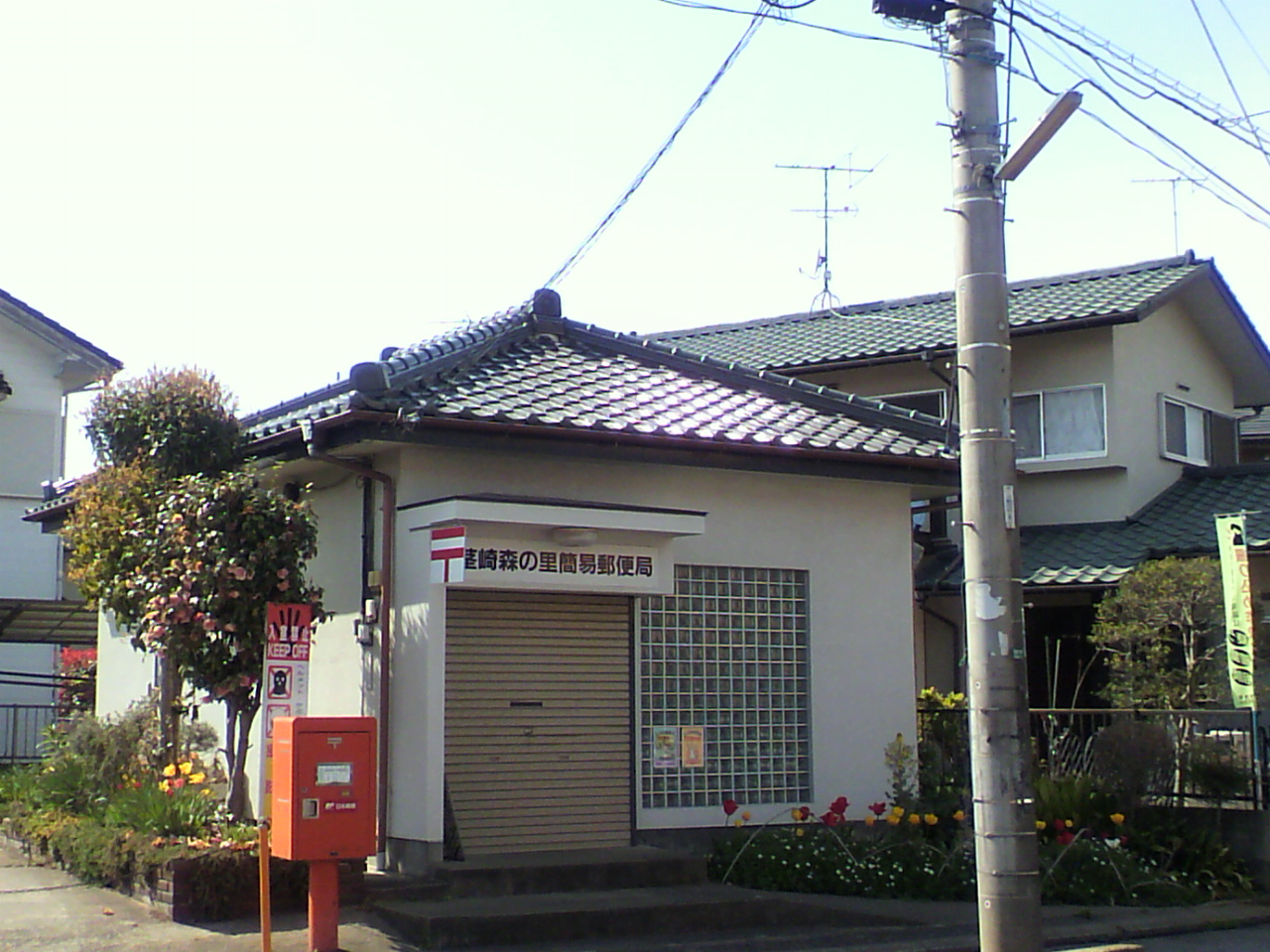 This is the Kukizaki-Morinosato Simple Post Office, which is located in Tsukuba, Ibaraki, Japan.